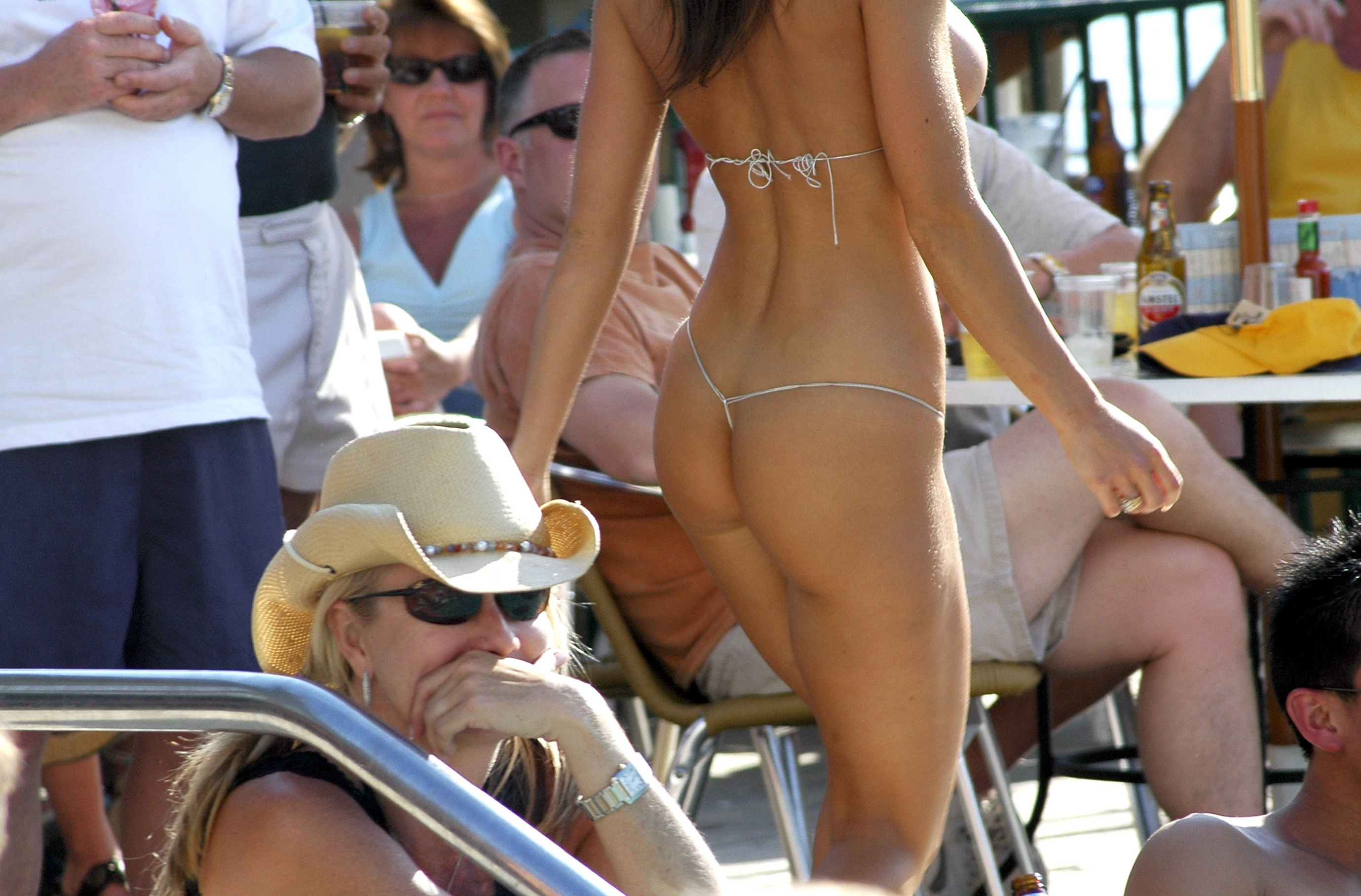 Sunrise, Florida, USA